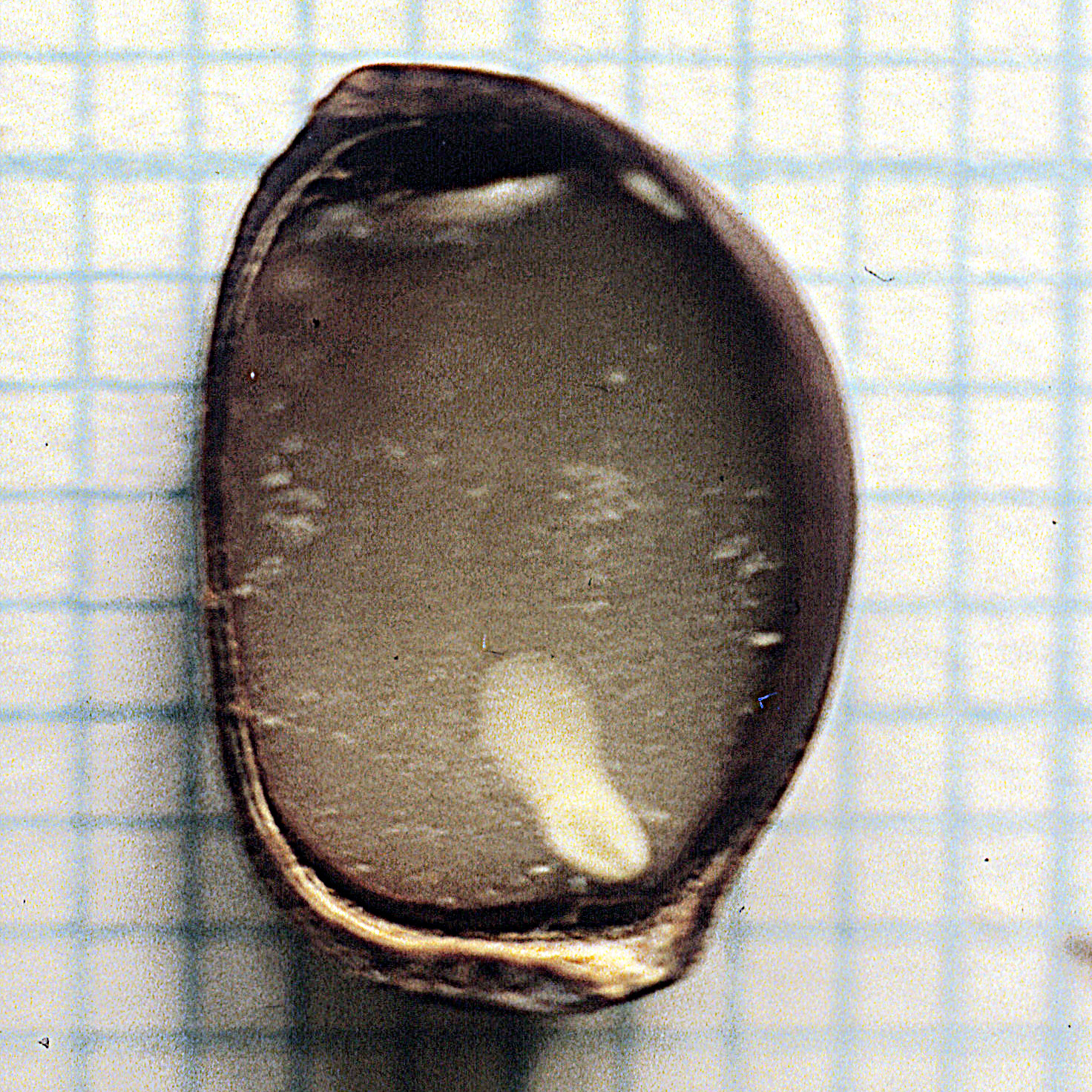 Longitudinal cut of Decaisnea fargesii seed